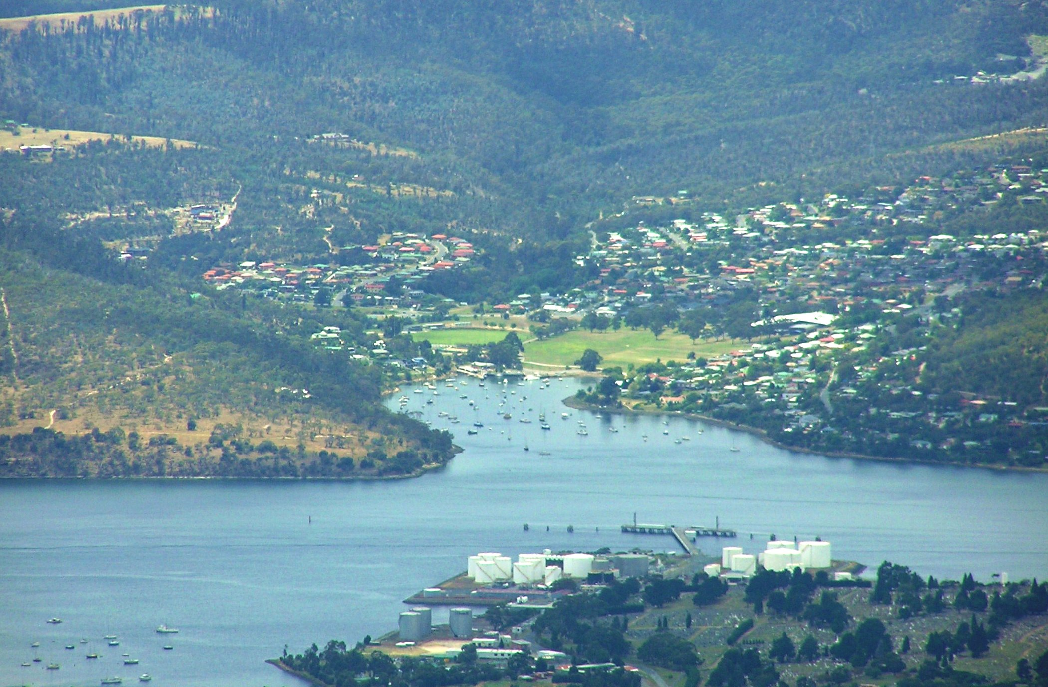 Geilston Bay suburb of Hobart Tasmania viewd from Lost World near Mount Wellington